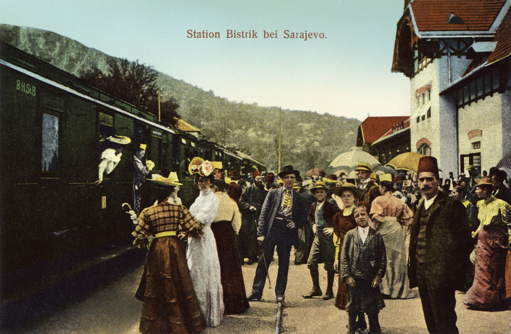 Narrow-gauge railway station Bistrik on the Eastern line Sarajevo - Uvac